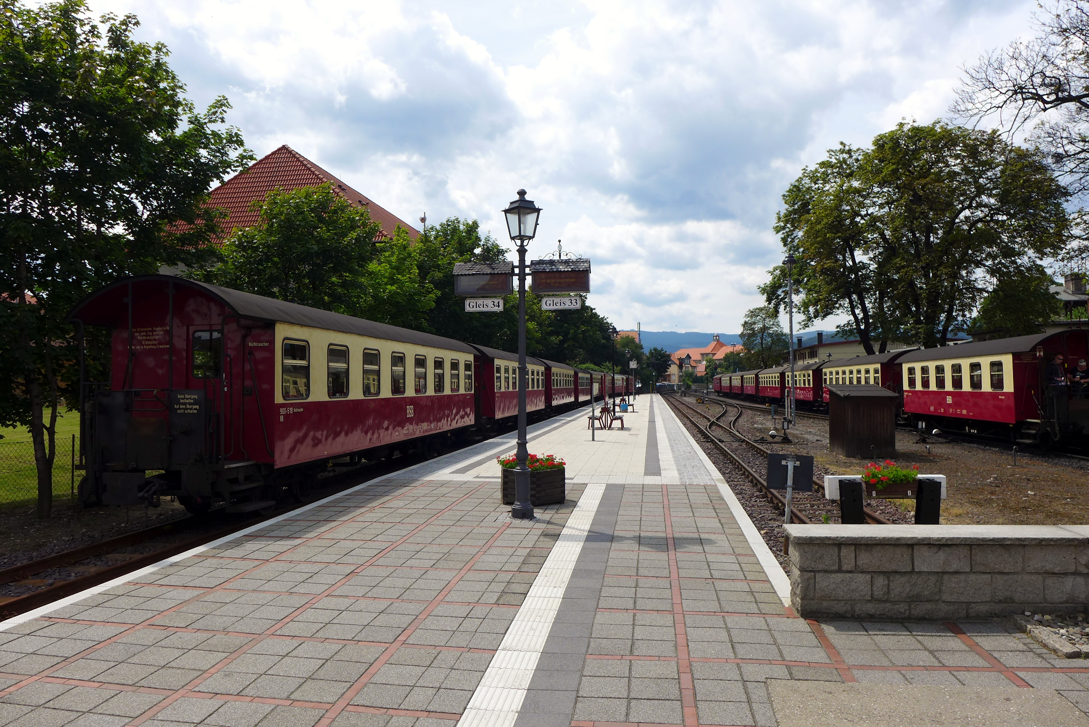 View of the narrow gauge Harzquerbahn tracks 33 and 34 and the adjacent station yard at Wernigerode railway station, Wernigerode, Germany.